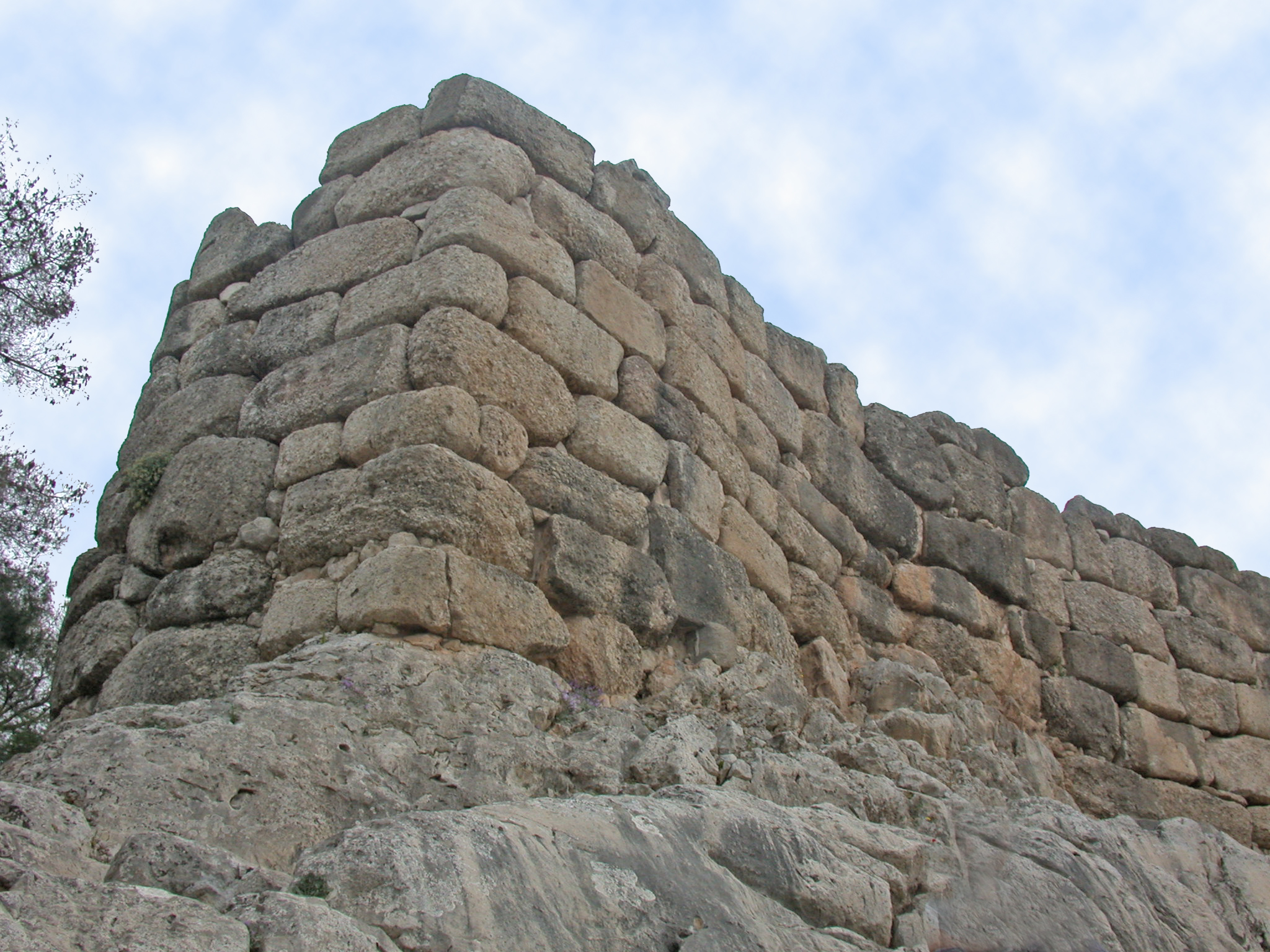 City's Walls before Lions' Gateway.